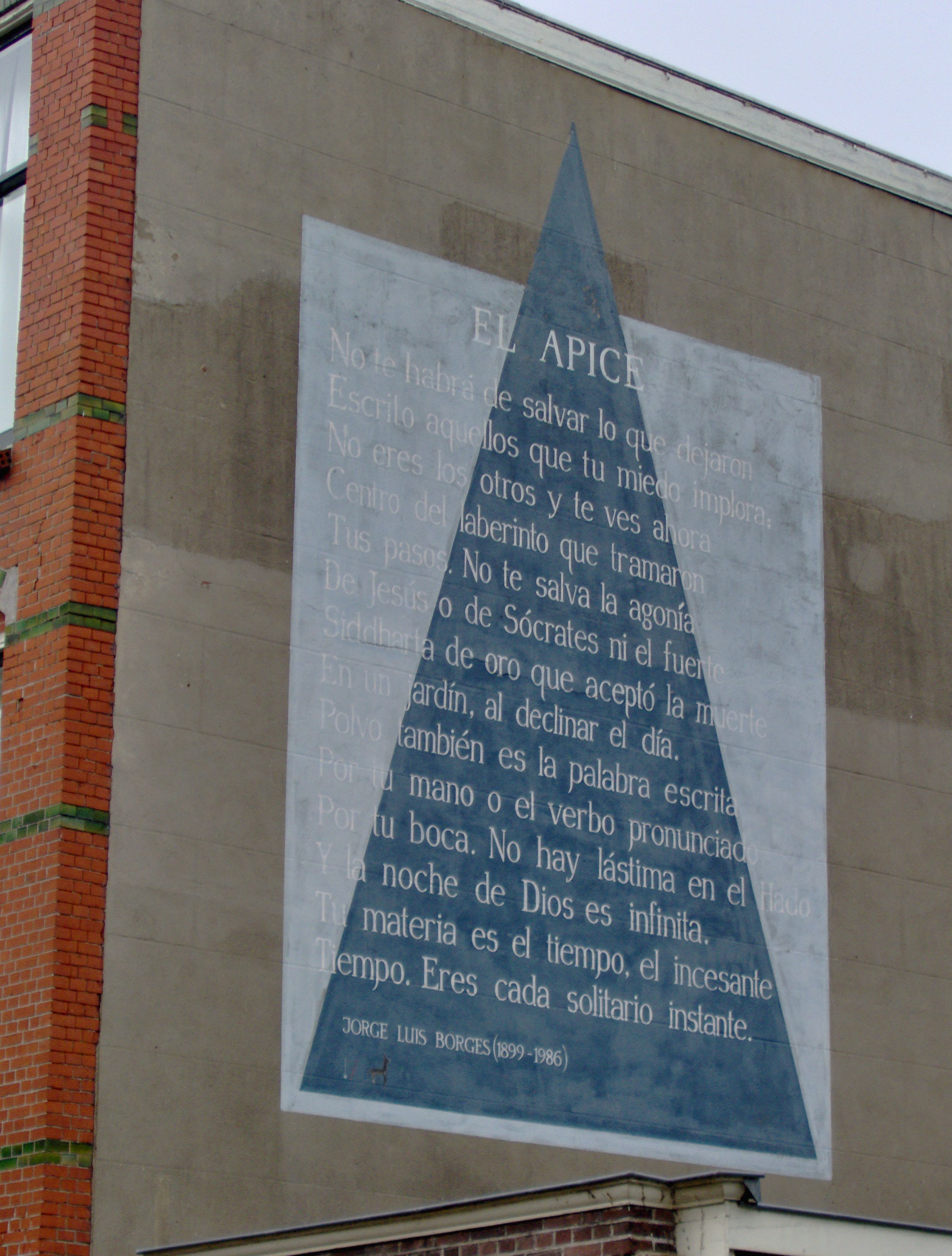 The poem El apice of the Argentinian poet Jorge Luis Borges on a wall of the building at the Groenhovenstraat 18, Leiden, The Netherlands.